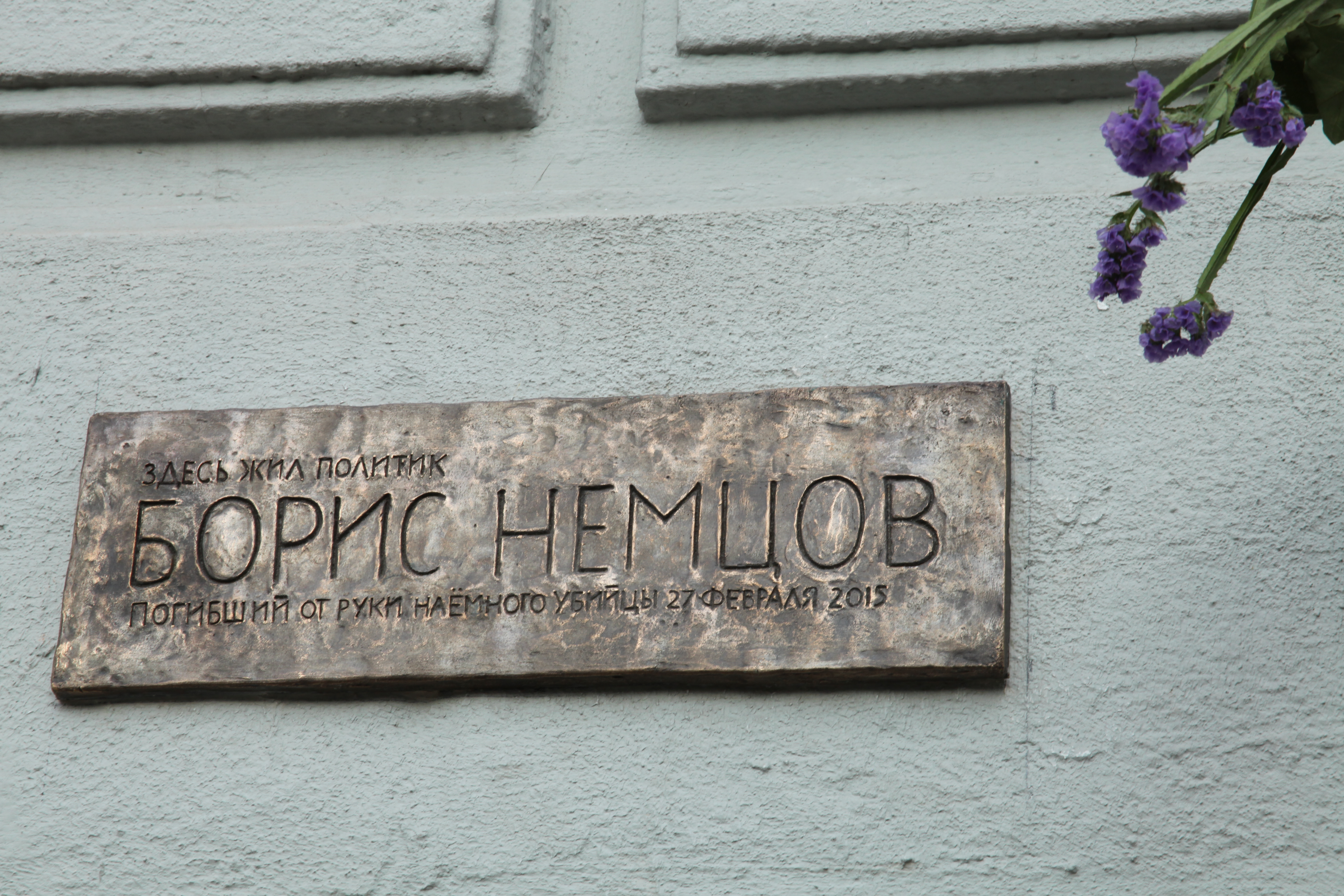 Boris Nemtsov commemorative plaque on the house where he lived (3, Malaya Ordynka Street, Moscow)